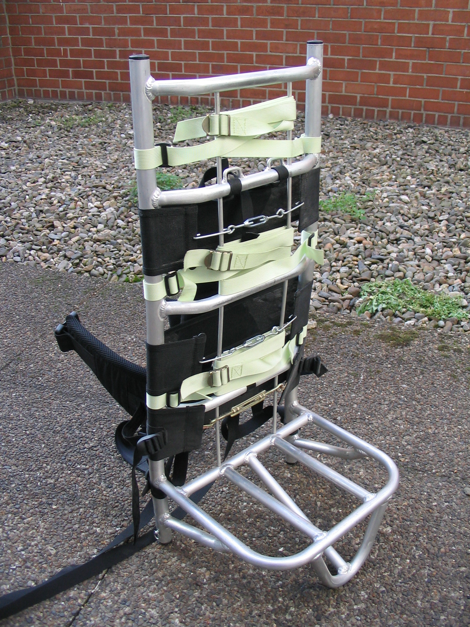 Fjäll Räven Fire Brigade Frame HB (external frame pack - backpack)